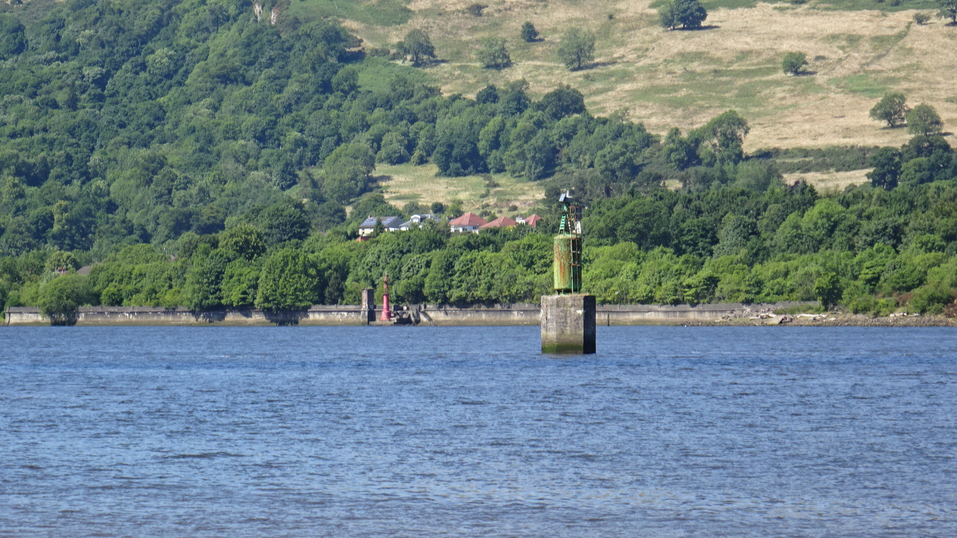 St Patrick's Light on the River Clyde, Erskine, Renfrewshire. It stands on St Patrick's Rock. Viewed from Erskine ferry site.